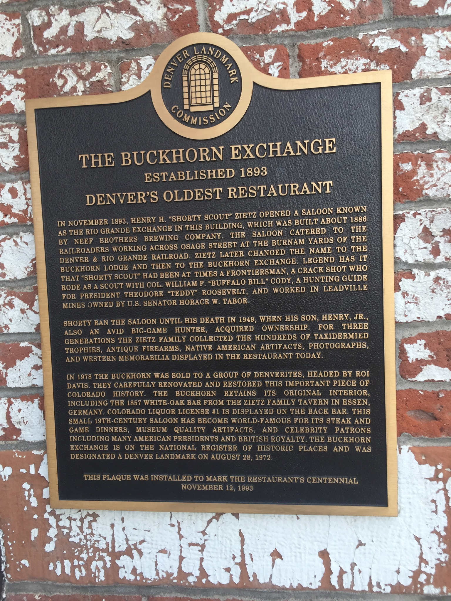 Buckhorn Exchange 1000 Osage St. National Register 4/21/1983, 5DV.700